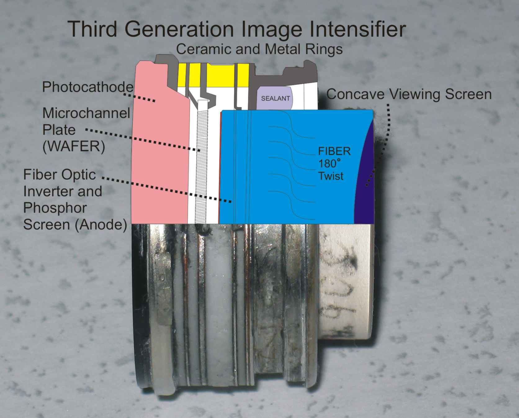 A Third Generation Image Intensifier tube with illustrated internal components in overlay